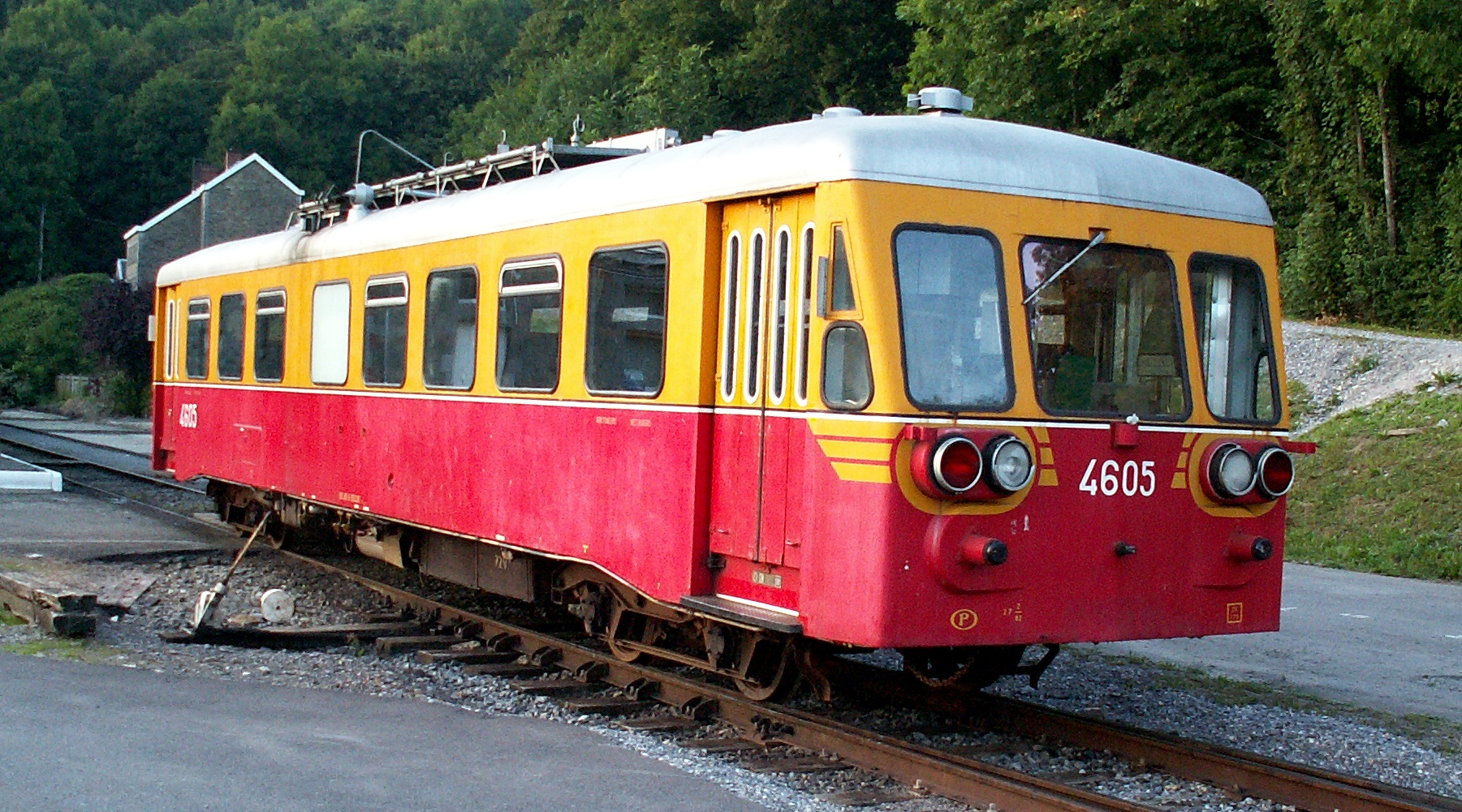 Railcar 4605 from the Belgian Heritage Railway PFT-TSP (Railway and Touristic Heritage) is used on the railway line 128 of the Belgian Railways, a formerly dismantled line which is being renewed for touristic purpose by the volunteers of the association. The class 46 diesel railcars (formerly type 554) of the Belgian Railways were build after world war 2, to ensure traffic on local railway lines. The 20 railcars were derived from type 553, with some improvements (larger windows for a more panoramic passenger experience, build in toilet...). During the golden sixties, many belgian local lines were dismantled, due to increasing use of road vehicles. As railcars have limited running costs, they continue to be used where their limited capacity was large enough for the duty. In 1984, a major timetable review, known as "IC-IR Plan" (for InterCity-InterRegio) simultaneously offers better services on major lines and dismantlement of the remaining local lines. Class 46 became too small for the remaining duties. As they were not so old, most of them were reused as infrastructure railcars or bought by various heritage railways. PFT-TSP owns 3 of them (one restored in original green livery). CFV3V, another heritage Railway also owns 4 of them.